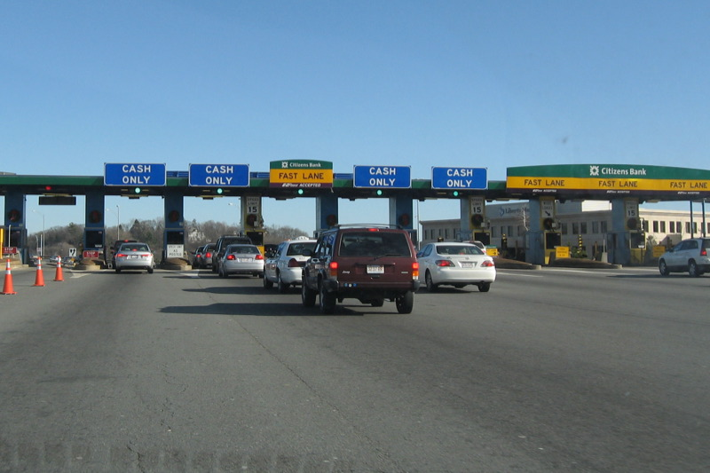 The toll plaza that marks the eastern end of the Massachusetts Turnpike's toll ticket system.